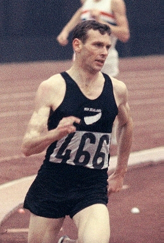 Peter Snell of New Zealand takes a lead in the Men's 1,500m Final at the National Stadium during the Tokyo Olympic on October 21, 1964 in Tokyo, Japan.